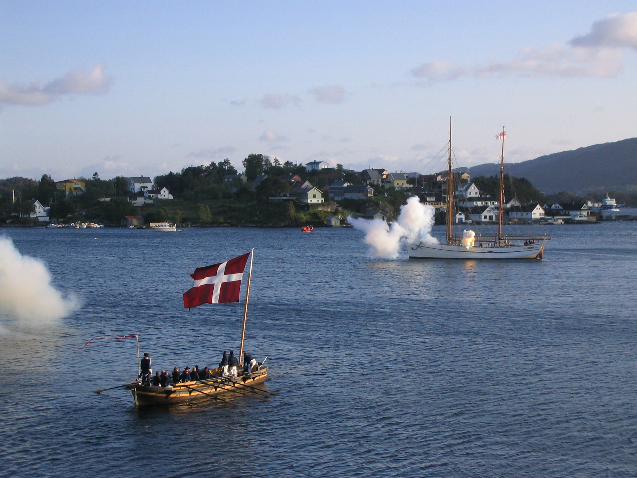 A reconstruction of the Battle of Alvøen, which originally occured during the "Gunboat war" of 1807-1814, 16 May 1808. Alvøen is situated outside Bergen, western Norway, and the reconstruction took place at 16 May 2008. The small gunboat in front is "Øster Riisøer 3", identical to the type of boat used in the battle. The white ship flying british colours is the Norwegian ship Loyal, which at this event took the role as HMS Tartar, which nearly lost the battle in 1808, but managed to escape. The reason for the Norwegian gunboat flying Danish colours, is that Denmark and Norway was in a union at the time of the battle.